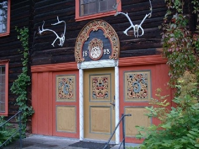 The door into the main building at Sunndal Bygdemuseum